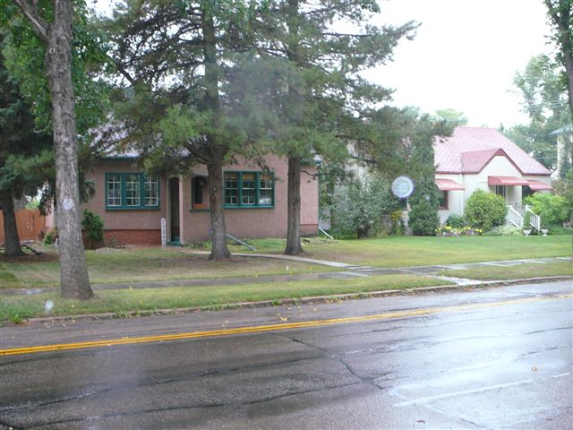 I took this picture myself on September 5, 2007